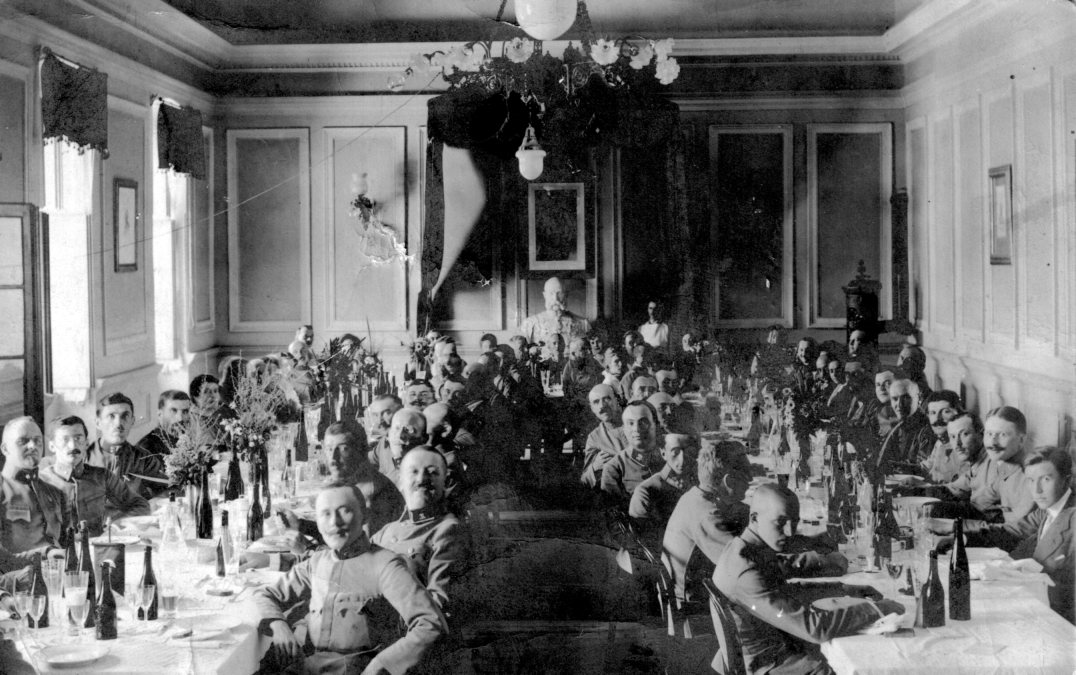 Military Command in Uzice 1916